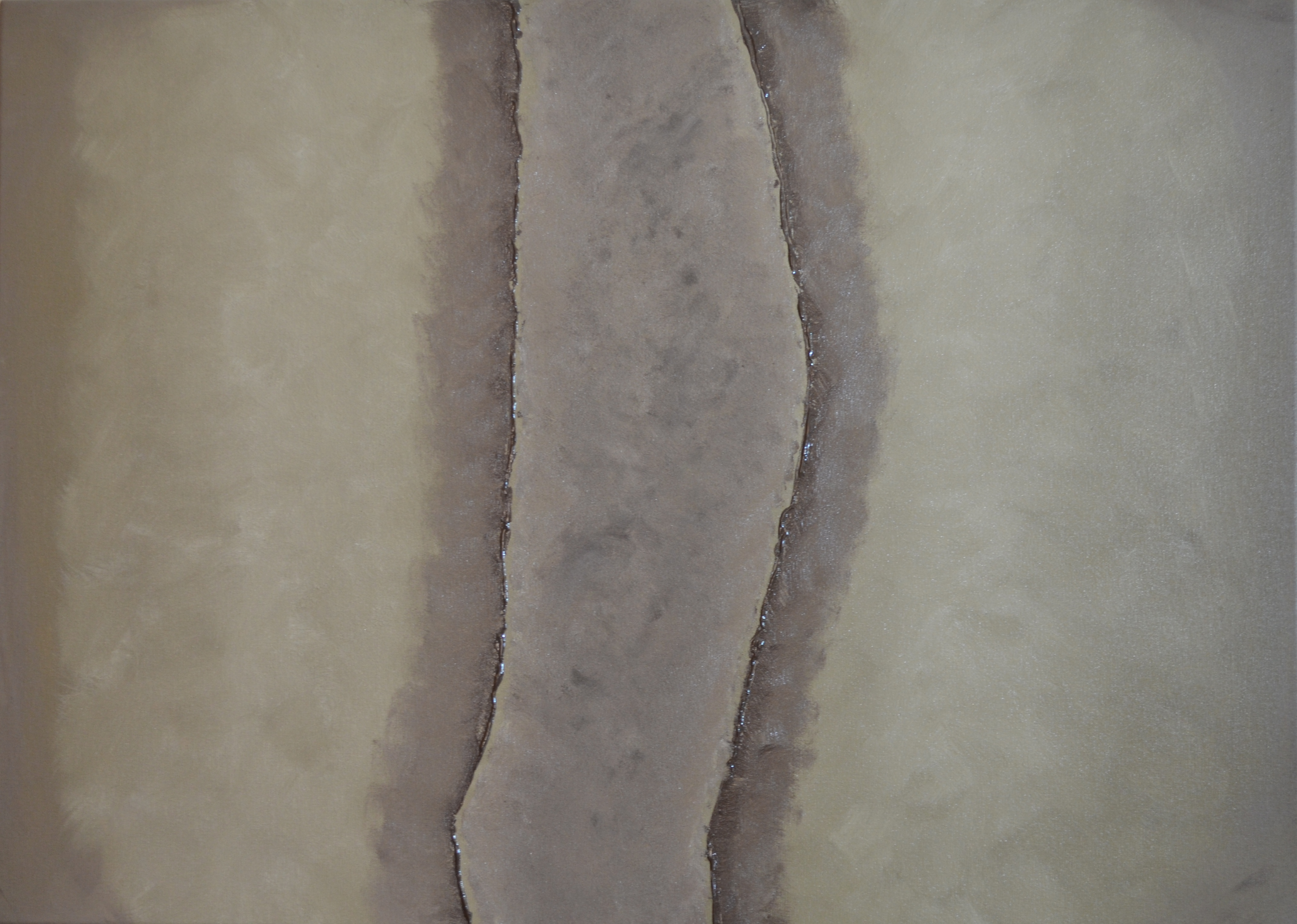 Example of abstract art, 'Edges' Natalia P. Fernandes, source: .br